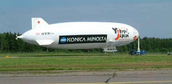 Yokoso! Japan airship at the Helsinki-Malmi Airport.